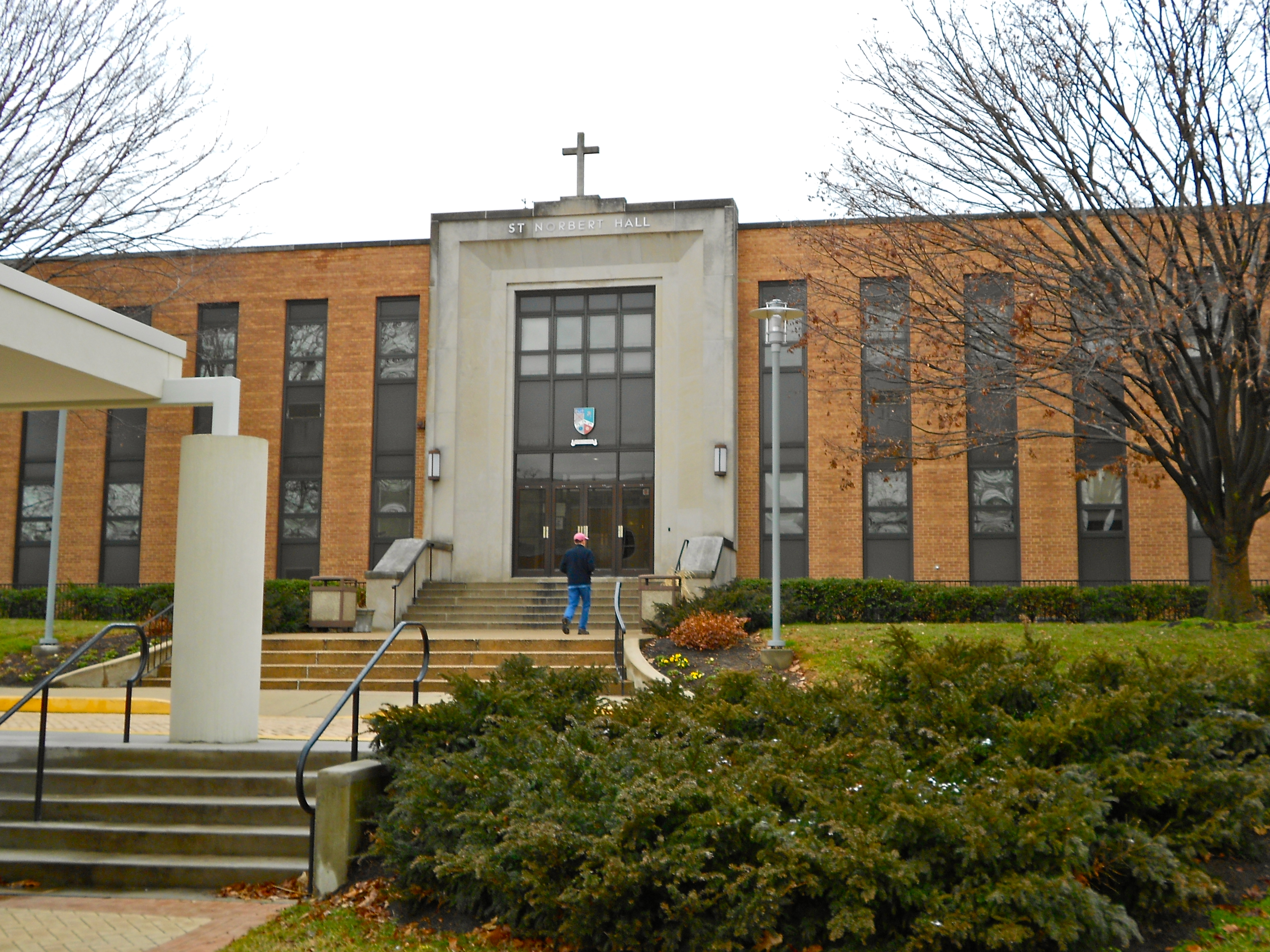 St. Norbert Hall at the Archmere Academy in Claymont, Deleware